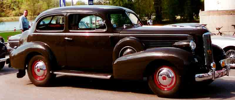 La Salle Series 37-5011 2-Door Touring Sedan 1937